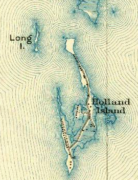 Image of Two Former Islands in Maryland